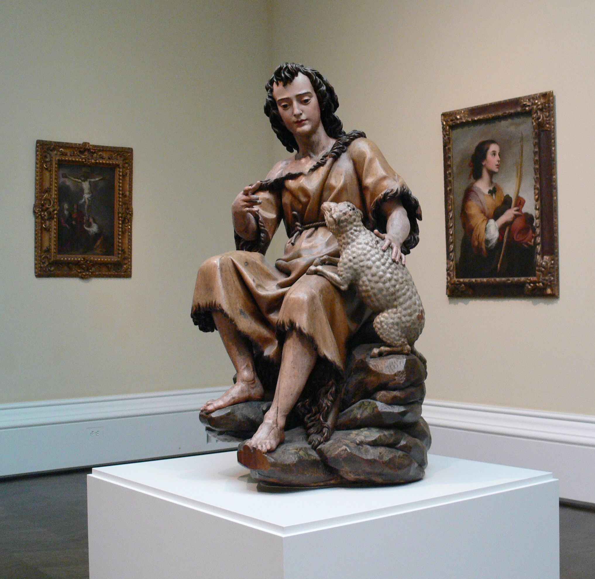 Meadows Museum at SMU, Dallas, Texas Statue of John the Baptist, by Juan Martínez Montañés